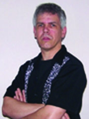 Richard A. Scott (Current)